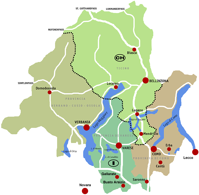 Map of the Regio Insubrica map created by user:Idéfix